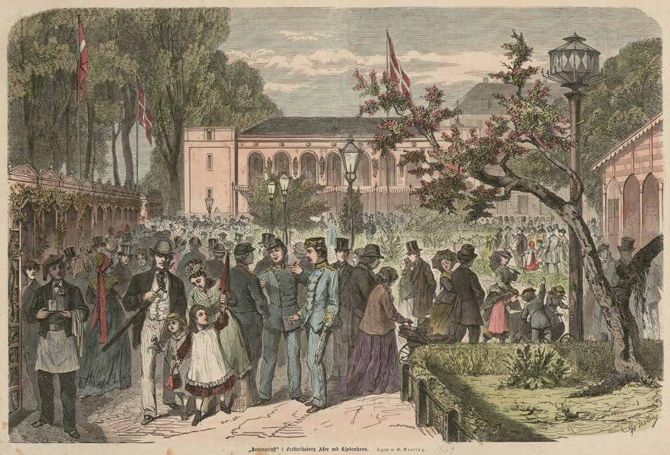 A painting from the entertainment establishment Sommerlyst at Frederiksberg Allé in 1869.